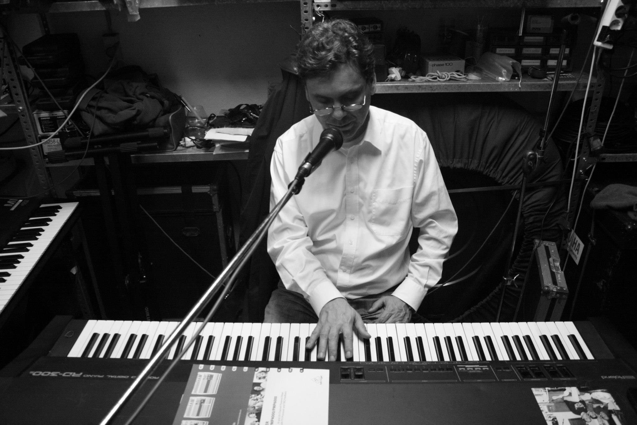 Jose castro on piano